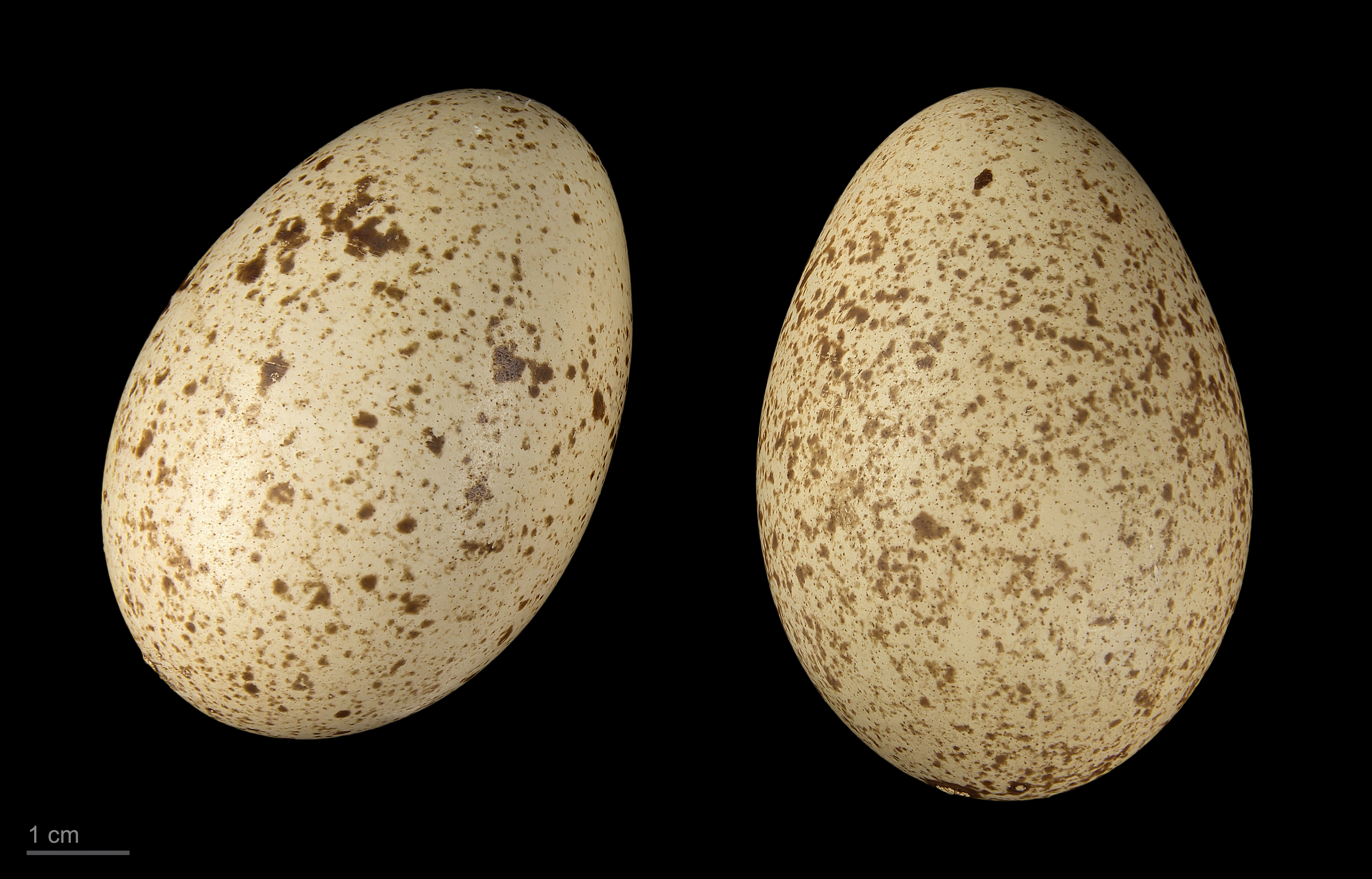 Egg of Himalayan monal Collection of Jacques Perrin de Brichambaut.